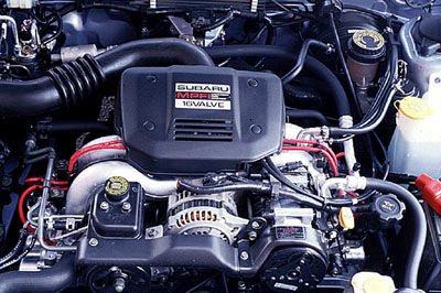 Subaru EJ22 series boxer engine